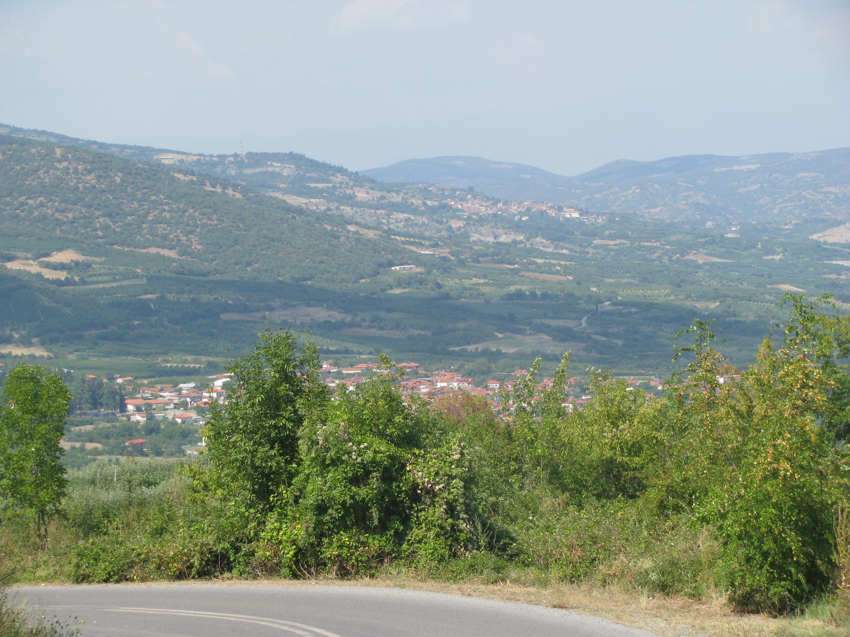 Village of Pod or Flamuria, Pella prefecture, Greece